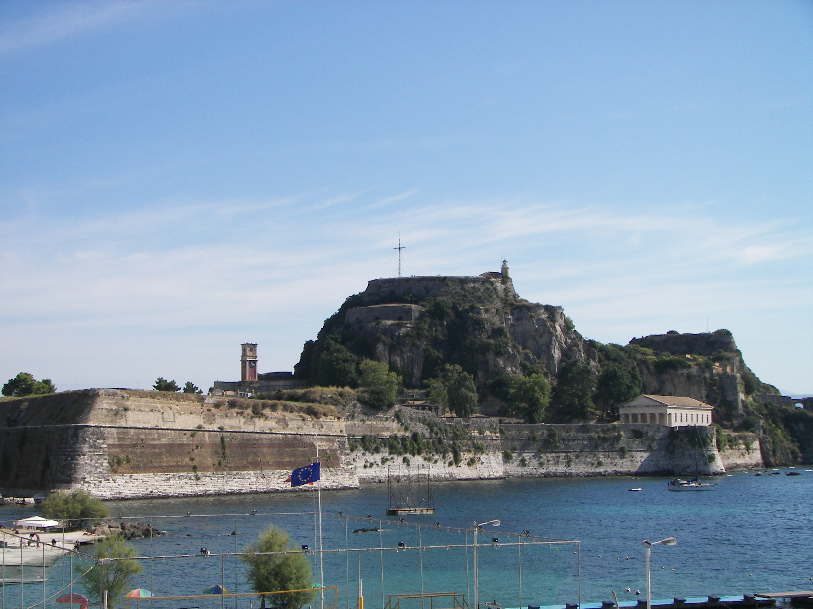 I am the author. Dr.K. 23:16, 8 September 2006 (UTC)